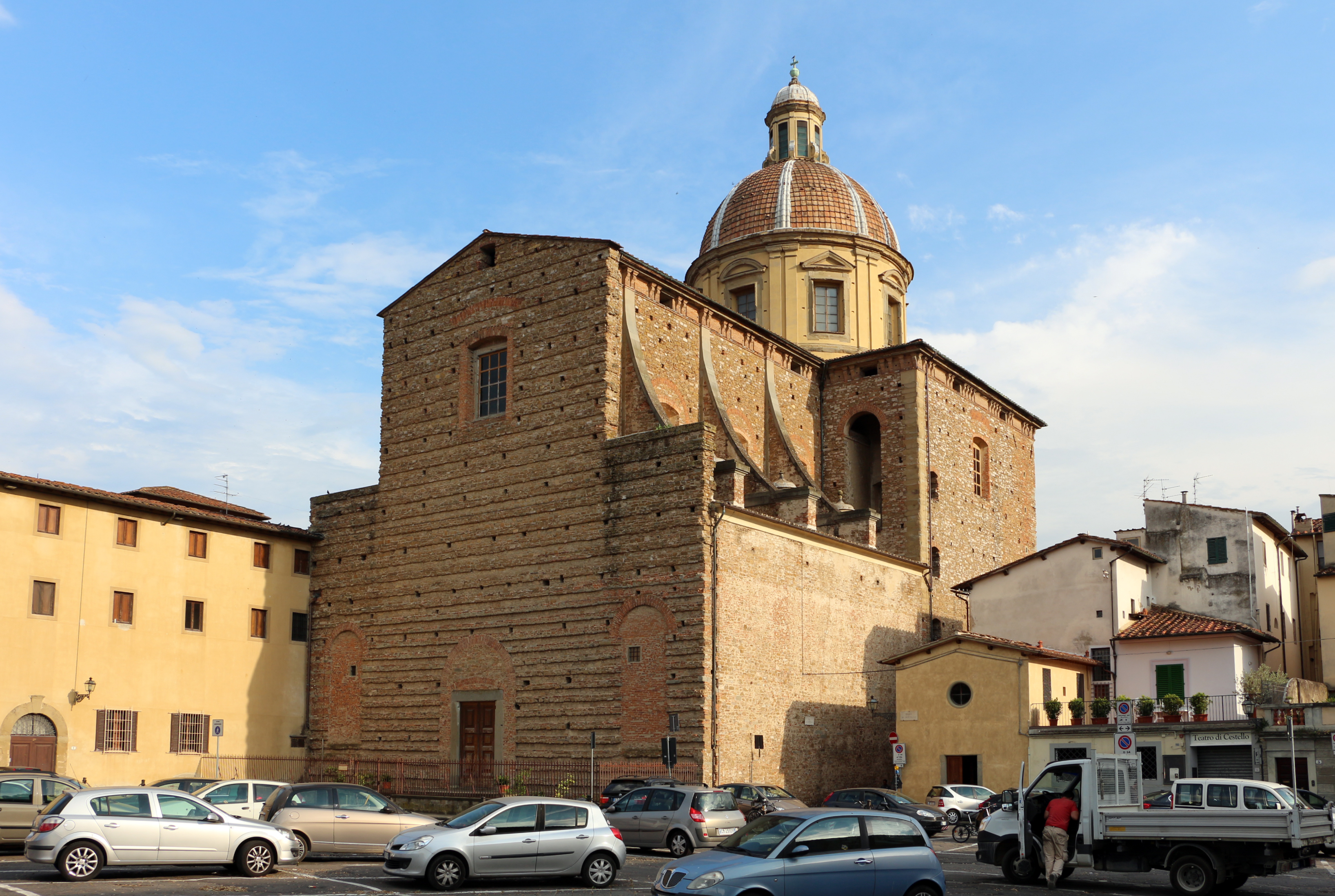 Firenze, various